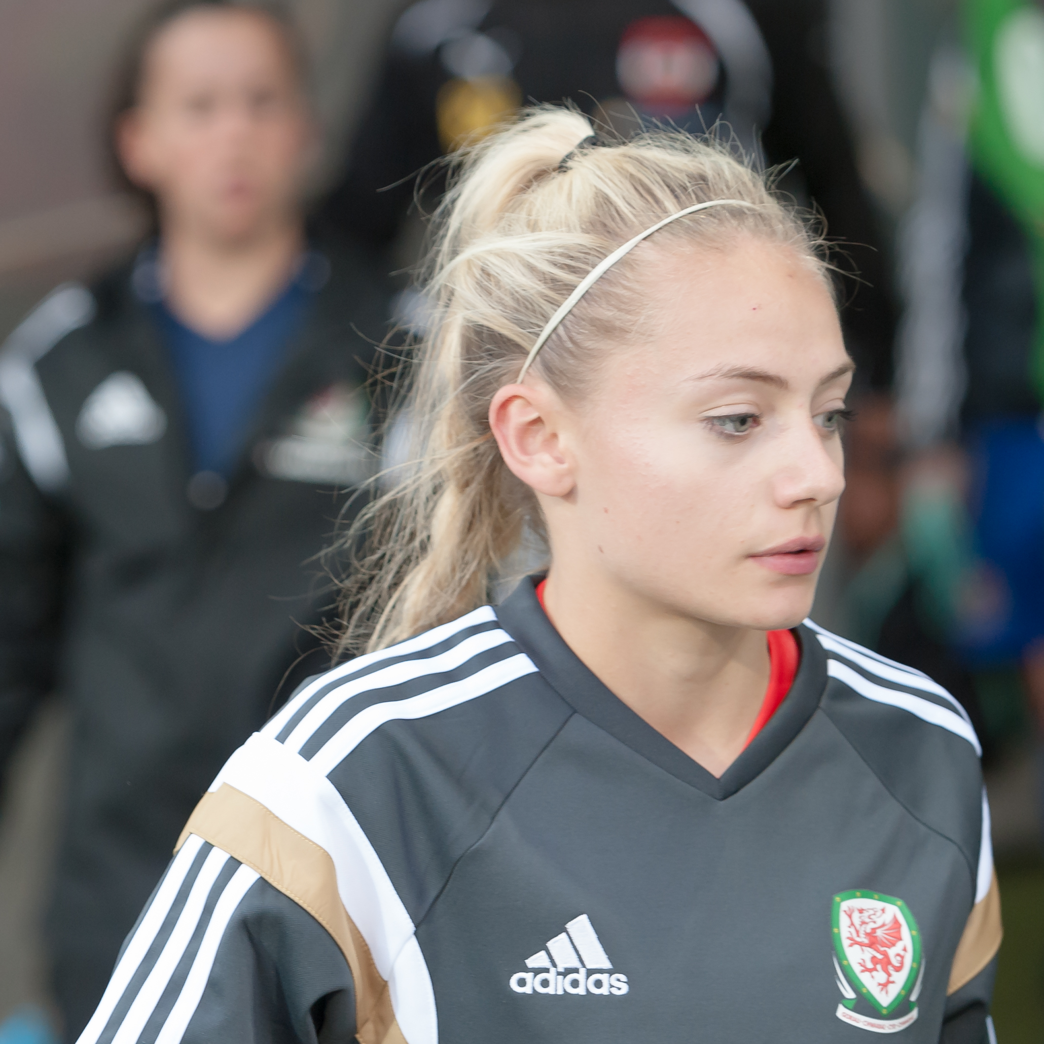 Women's Euro Qualification Austria vs. Wales, 2015-09-22, St. Pölten, Lower Austria